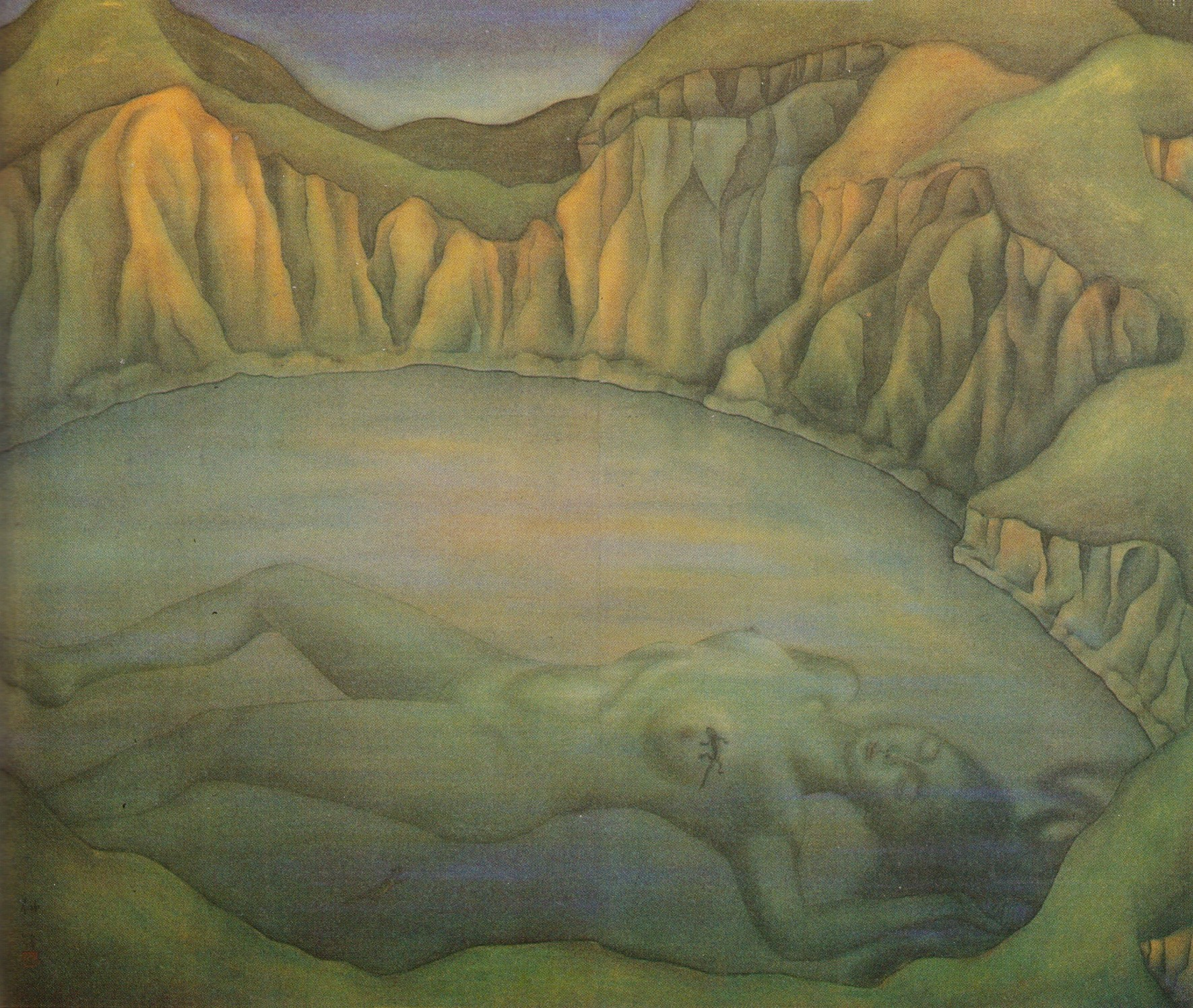 Kayukawa Shinji - Enchanting image